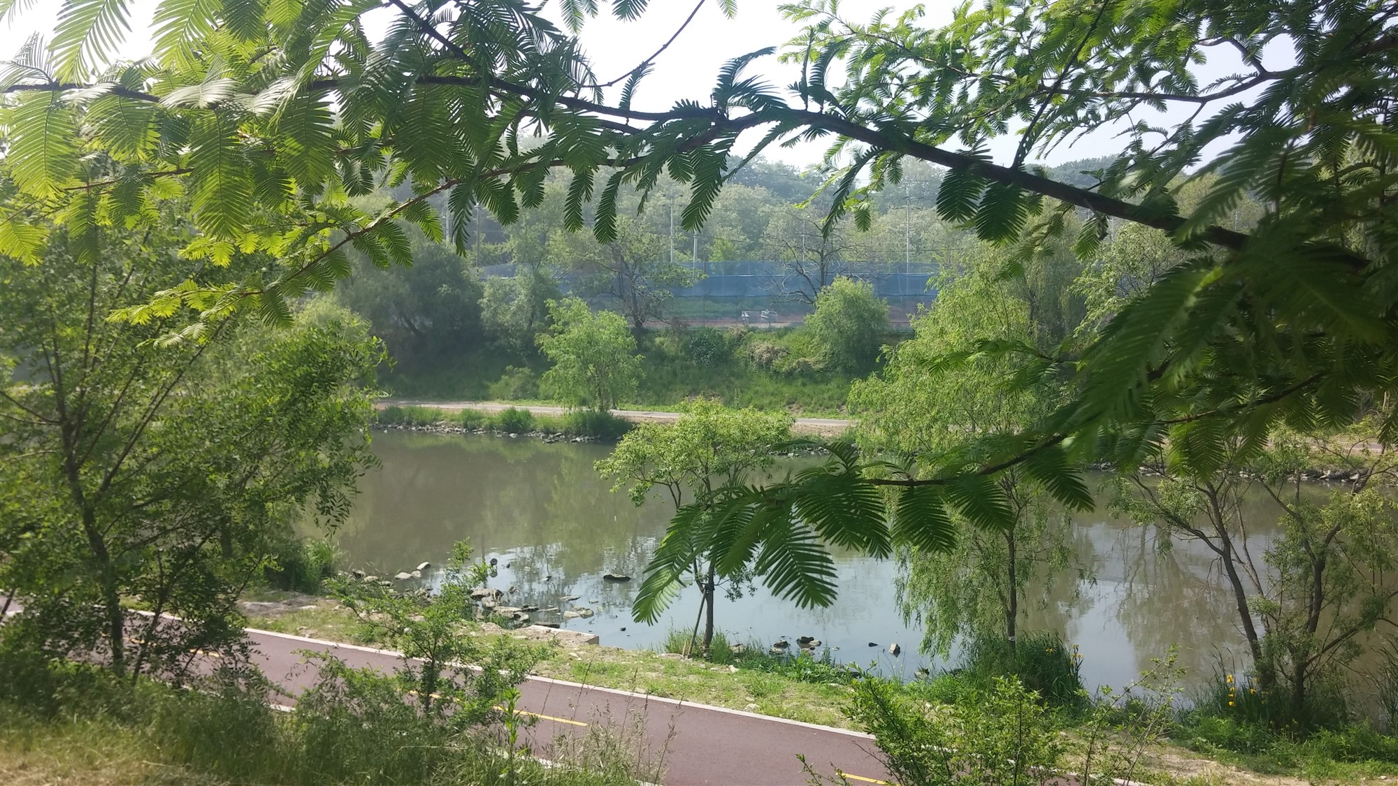 Treed view of Ansan canal, Gyeonggi-do, South Korea